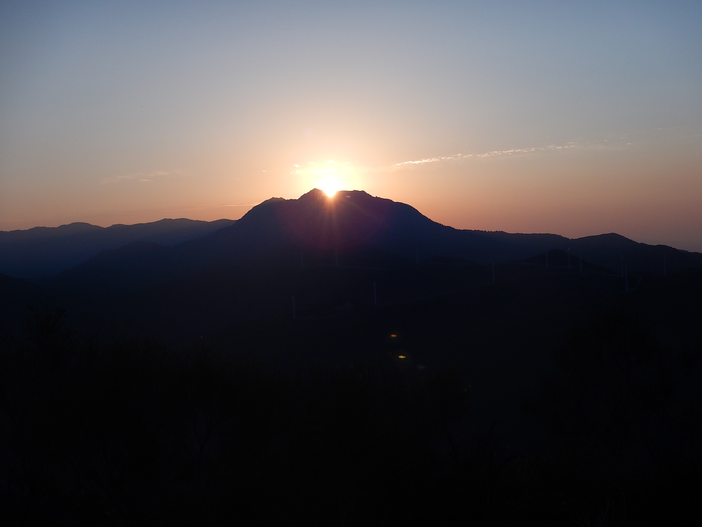 Montagna di Vernà, Peloritani mountains. sicily